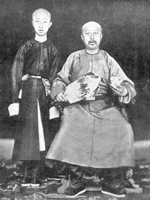 It is always said that the two on this photo are Emperor Guangxu and his father Prince Yixuan. However, as an emperor, it is impossible that Guangxu stand beside his father, so it is not Guangxu.